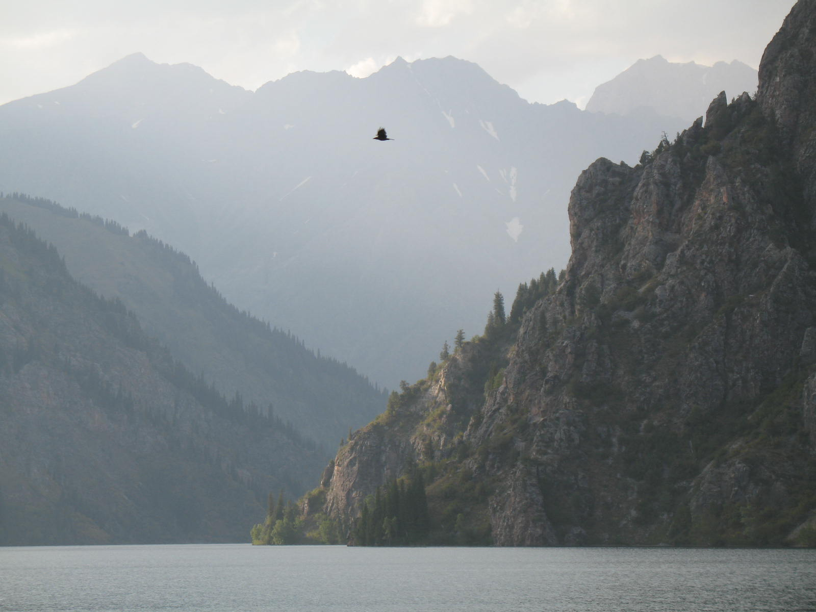 A view of Sary Chelek lake in Kyrgyzstan Кыргызча: Сары-Челек көрүнүшү